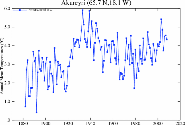 Climate graph of 1882 2008 air average temperaturas at Airport of Akureyri, Iceland